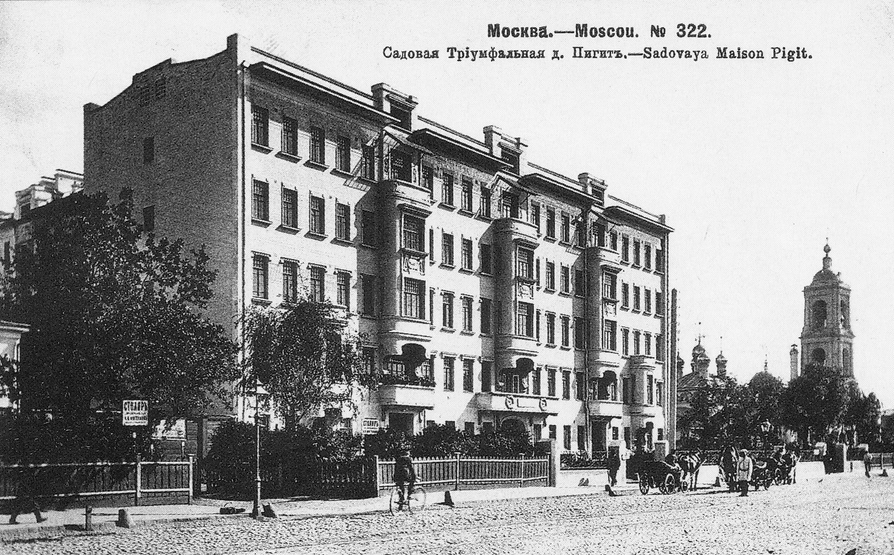 Profitable House Pigita, built in the early twentieth century